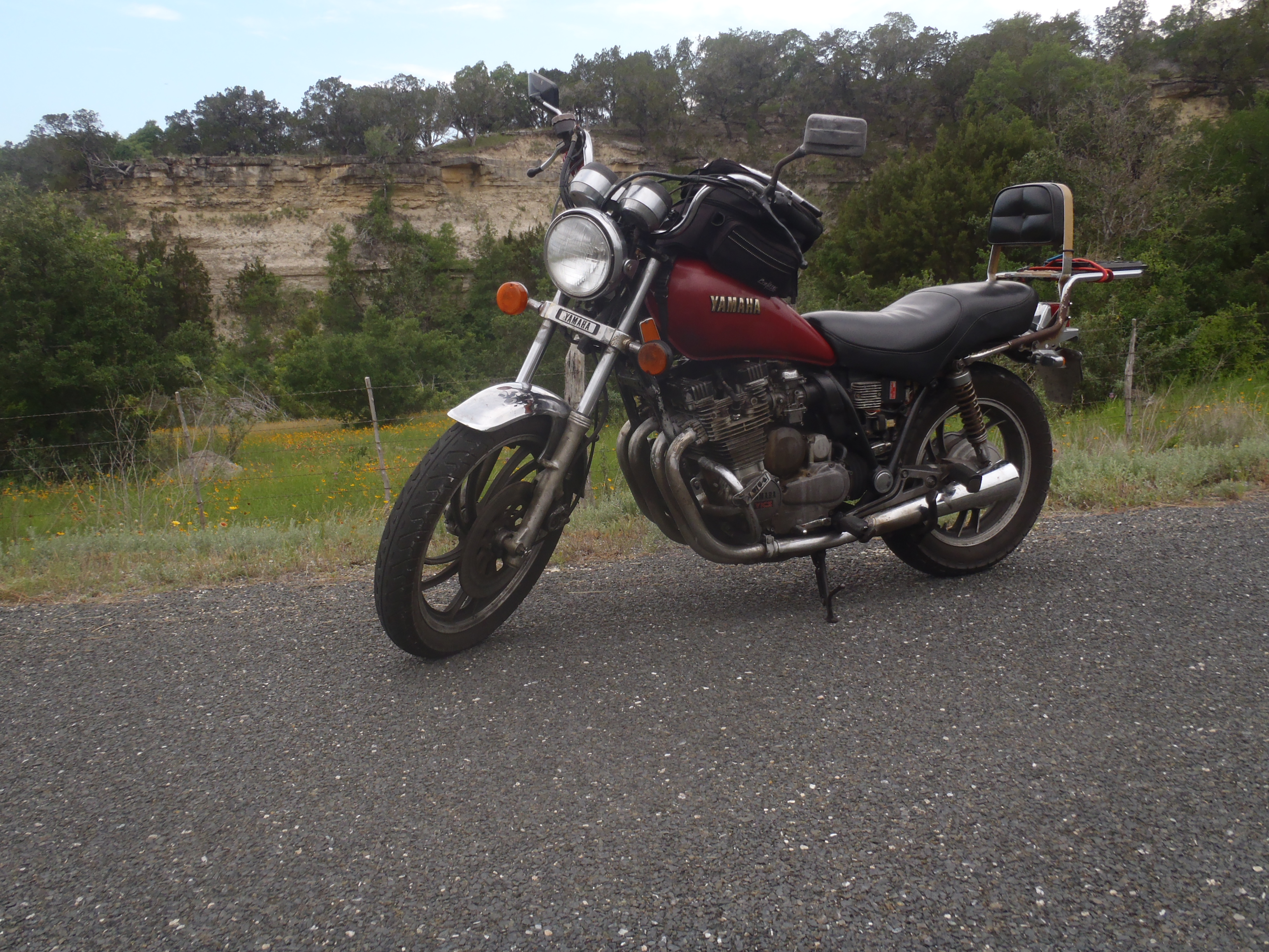 A 1982 Yamaha XJ 650 Maxim, side view.